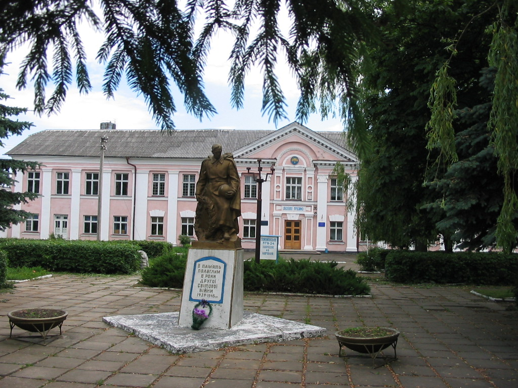 Town of Voynyliv (ukr. Войнилів, pol. Wojnilov, rus. Войнилов - Voynilov) in Kalush district, Ivano-Frankivsk Oblast, western Ukraine.